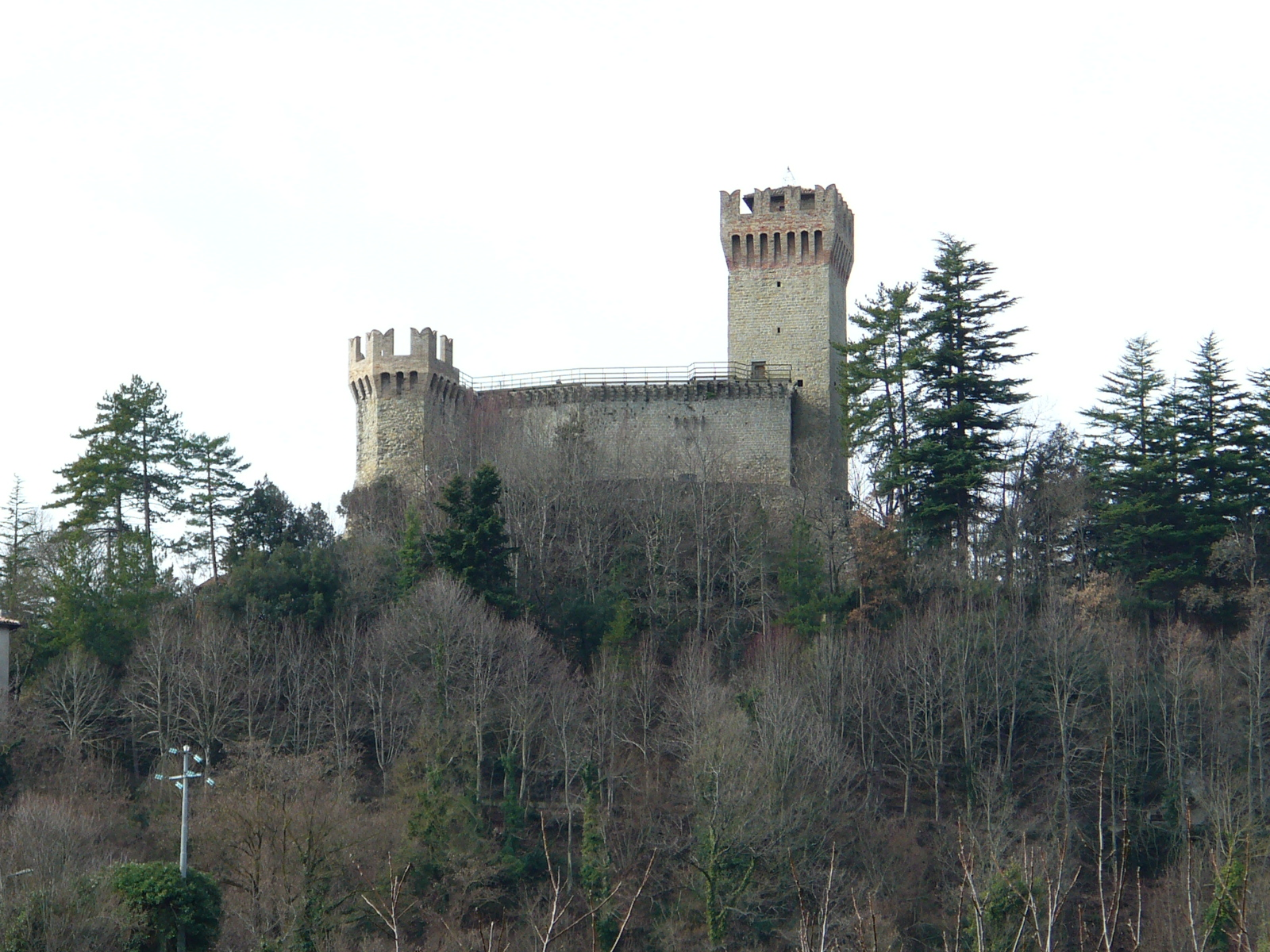 Castle ("Rocca") of Arquata del Tronto (province of Ascoli Piceno, Marche, Italy)